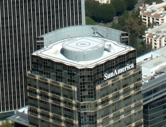 An aerial view of the helipad atop the Sun America office building in Century City, California.